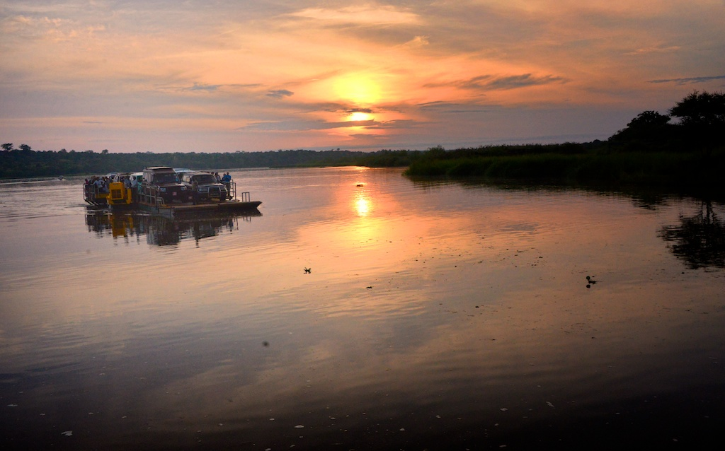 Early Ferry, Uganda